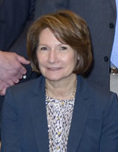 DPCPSI director Dr. James Anderson (standing, 2nd from l) welcomes new advisory council members (standing, from l) Drs. Susan Wooley, Gilbert White, James Schwob and Nancy Haigwood. Seated are (from l) Drs. Carlos Bustamante, Janice Clements and Craig McClain. Not shown are Drs. Emery Brown, Barbara Guthrie and Steven DeKosky.